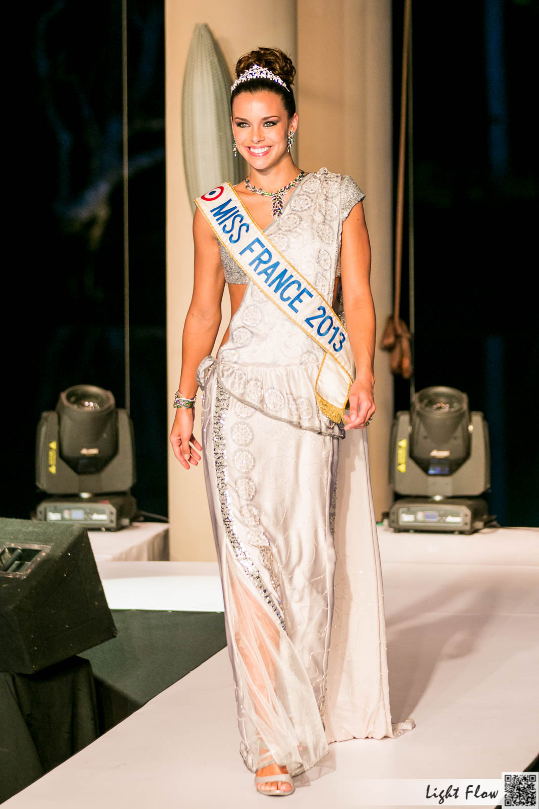 Marine Lorphelin in Sri Lanka using the Miss France Pre-Pagent tour in 2013